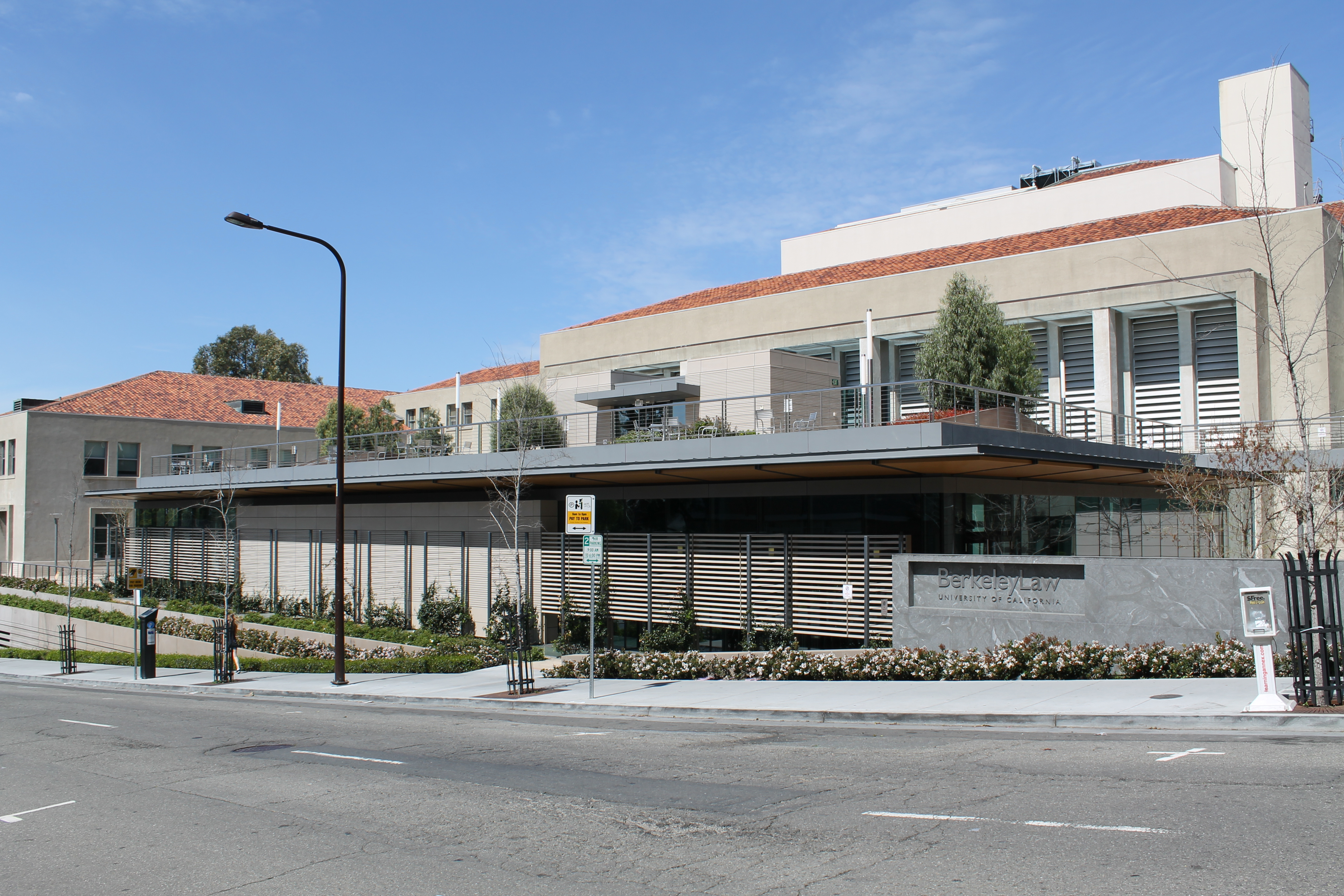 The UC Berkeley School of Law's renovated Law Building and new South Pavilion as seen from Bancroft Way, after major construction work completed in 2012.